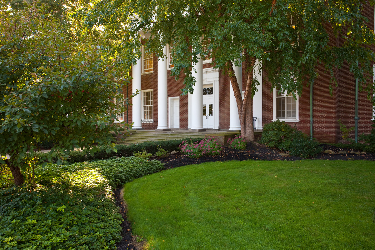 Main Academic Building